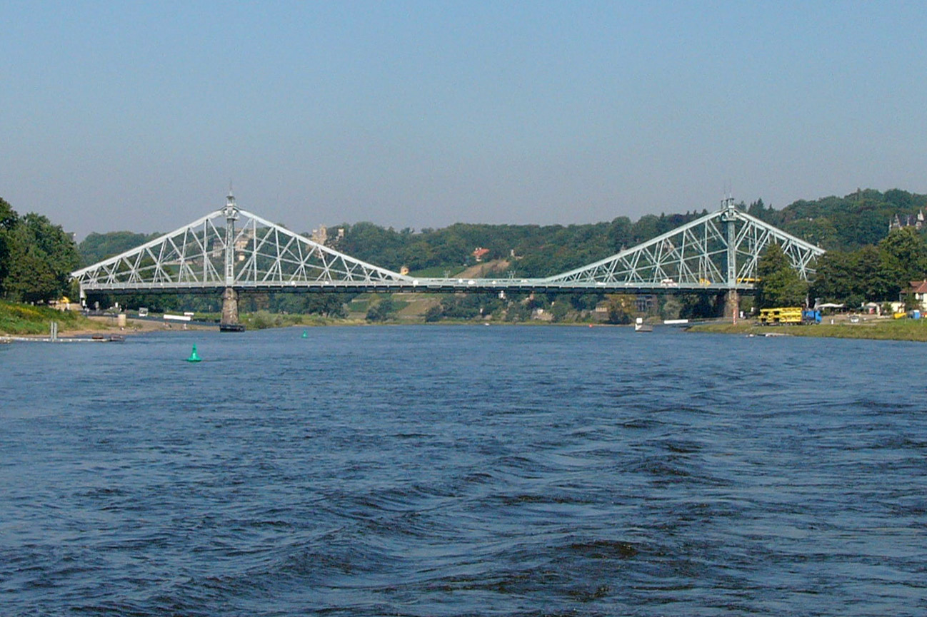 Bridge in Dresden - Blaues Wunder.